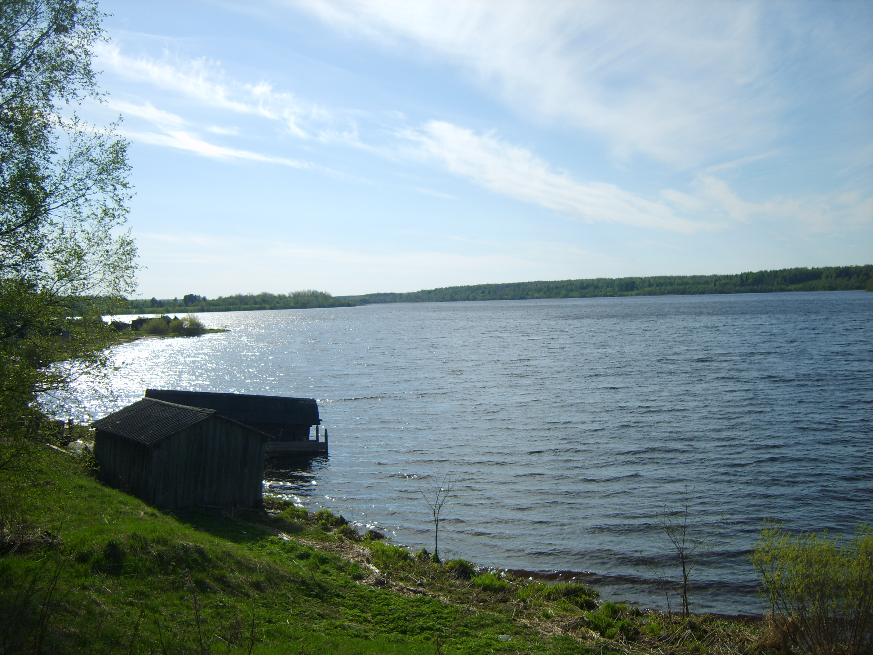 Yuksovskое Lake from Rodionovo